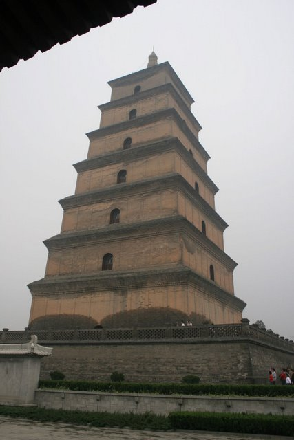 The Giant Wild Goose Pagoda, built in 652 and rebuilt in 704 during the Tang Dynasty.